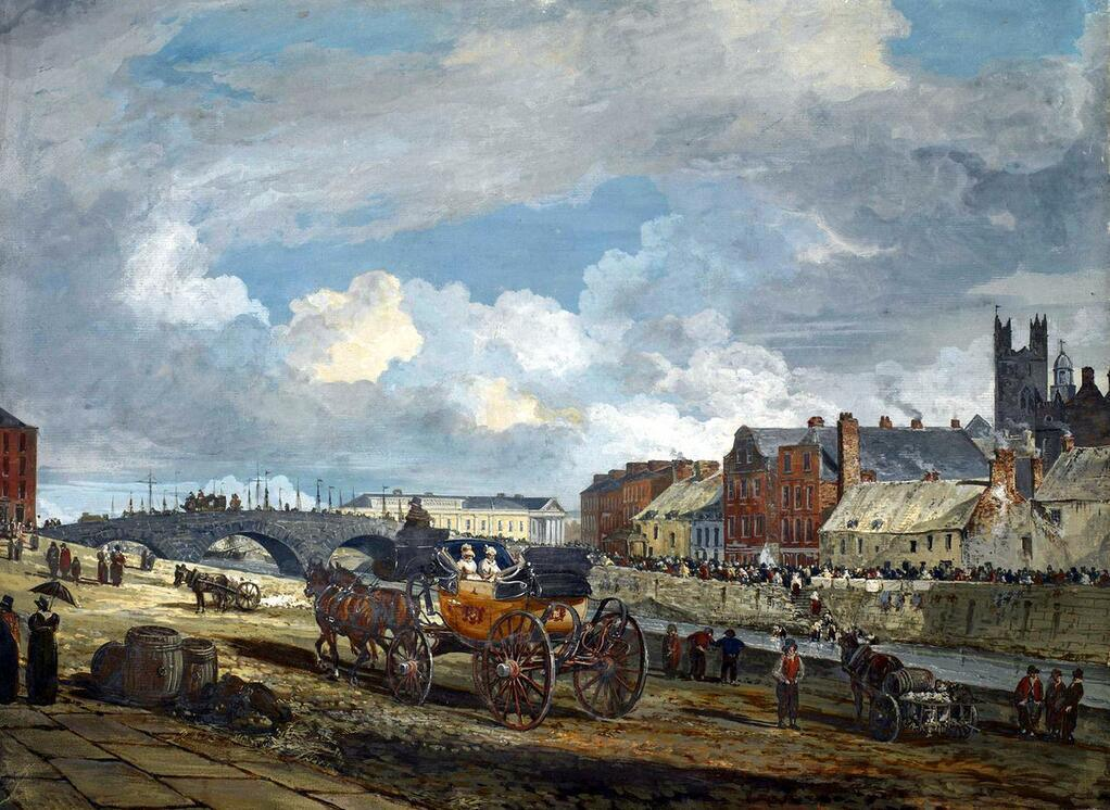 Limerick in the 1820s